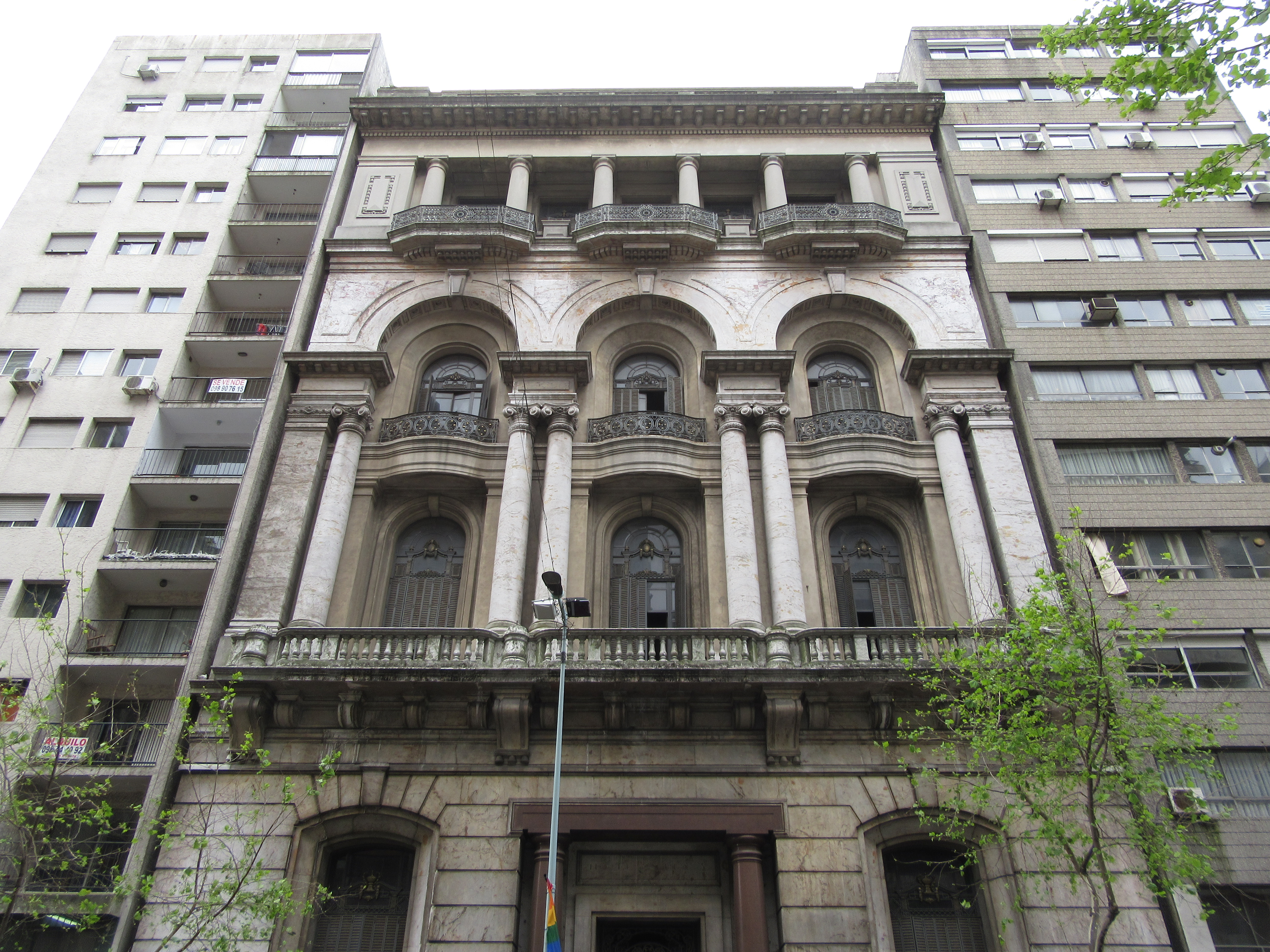 Montevideo